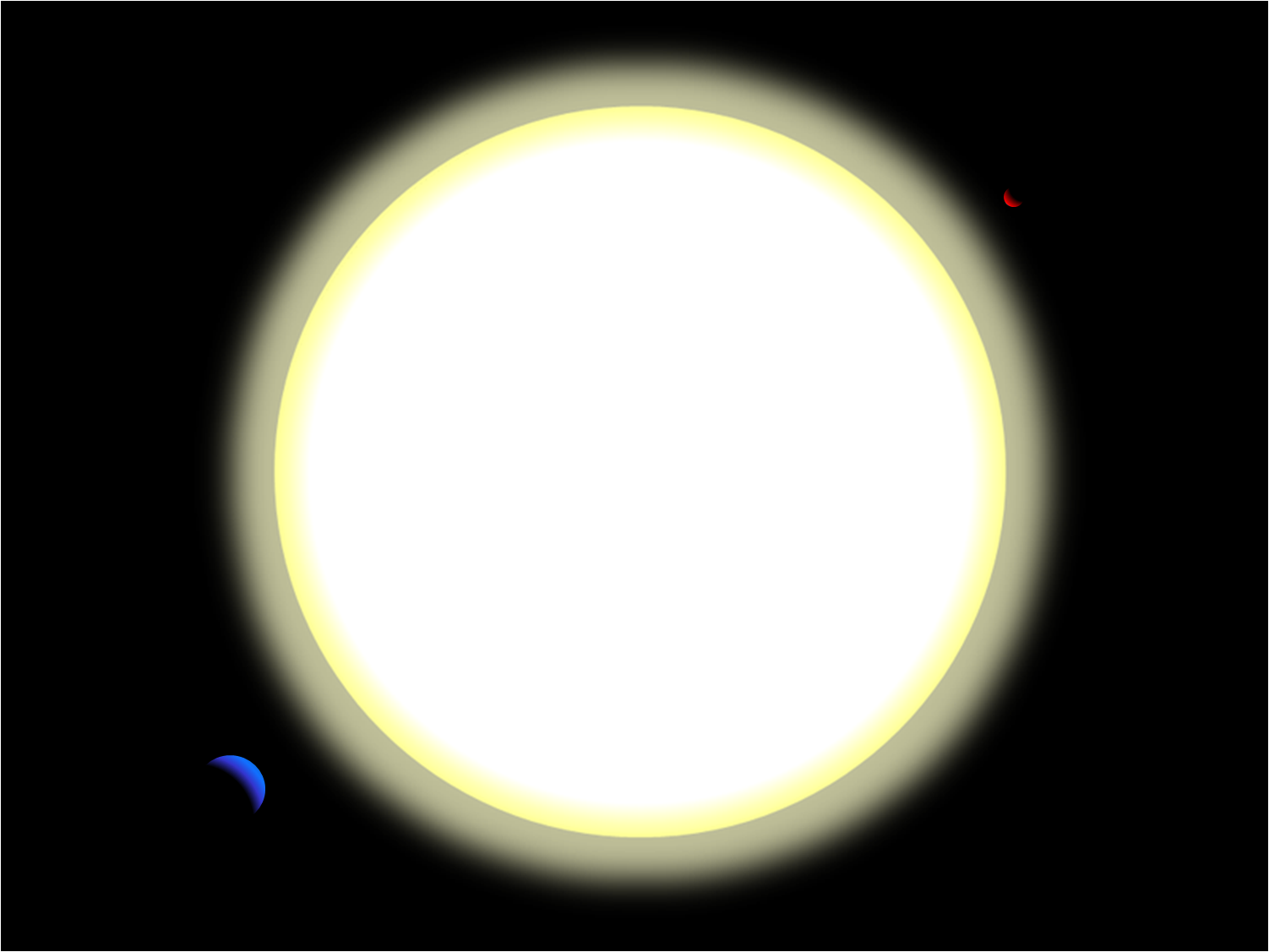 A rendition of Upsilon Andromedae A, with 2 planets from 4.